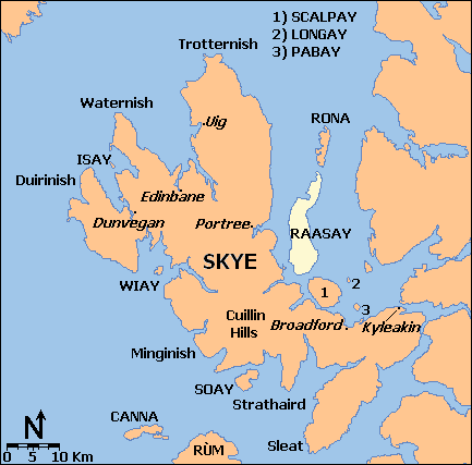 Map of the Isle of Raasay and surroundings, based on a public domain original map, generated at OMC (which uses GMT,[1] an open source software licensed under GNU GPL[2]).